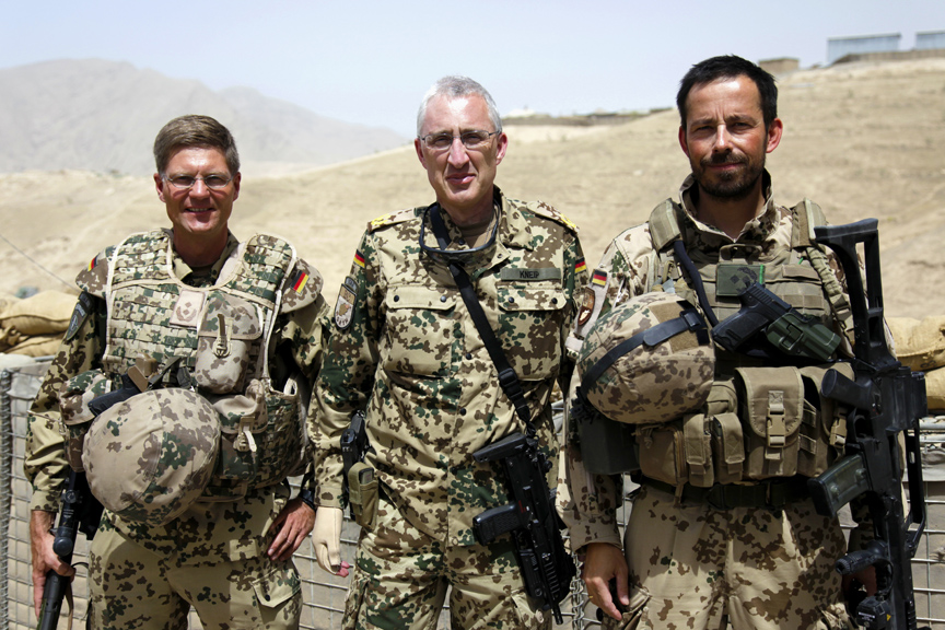 110813-O-#####-529 Baghlan Province, Afghanistan. (Aug. 13, 2011) Incoming Observation Post North Commander Lt. Col. Peter Mirow poses with International Security Assistance Force Regional Command North Commander Maj. Gen. Markus Kneip and the outpost’s outgoing commander Lt. Col. Heico Hübner at the post’s change of command ceremony on Aug. 13. (RC North Mazar-e Sharif Public Affairs photo by Staff Sgt. Florian Krumbach/Released).